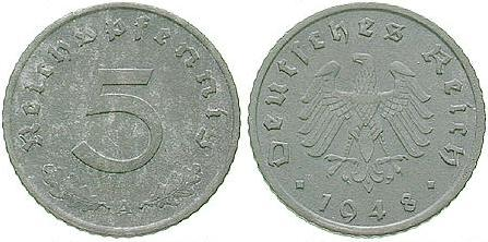 German 5 pfennig (1/100 of a Reichsmark).